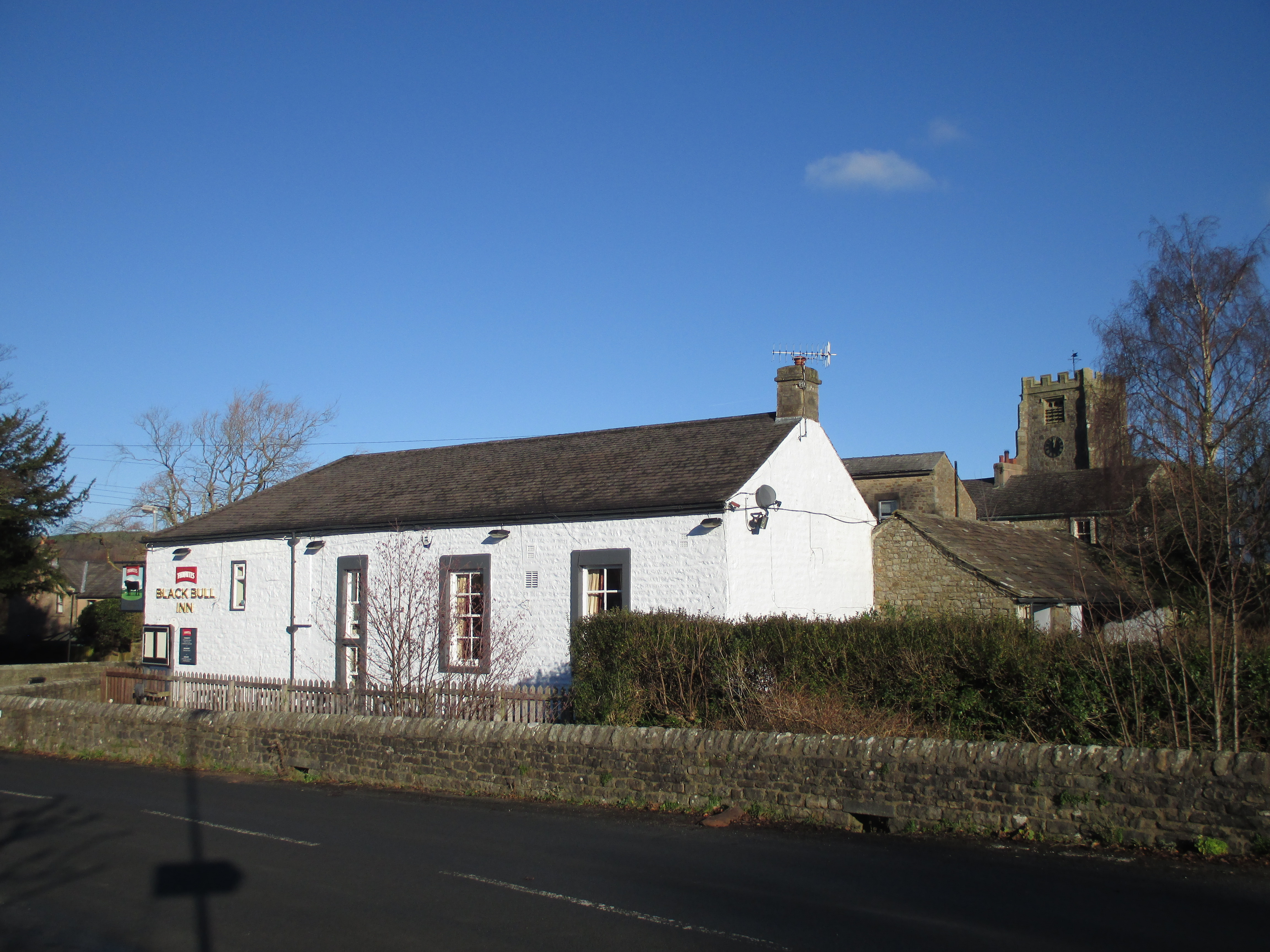 The Black Bull Inn, Brookhouse Road, Brookhouse, Lancashire, seen from Littledale Road, with the tower of St Paul's Church in the background.